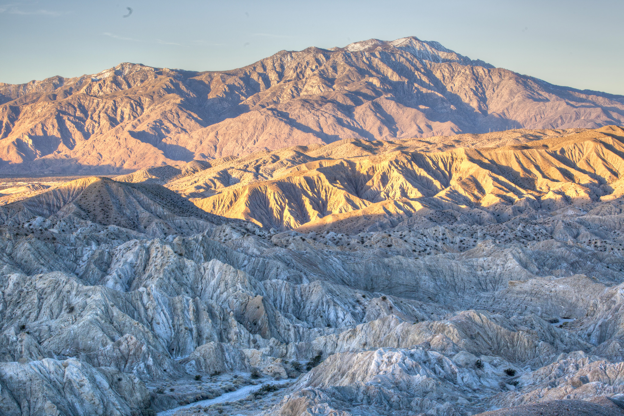 Rising abruptly from the desert floor, the Santa Rosa and San Jacinto Mountains National Monument reaches an elevation of 10,834 feet at the summit of Mount San Jacinto. Providing a picturesque backdrop to local communities, the national monument significantly contributes to the Coachella Valley’s lure as a popular resort and retirement community. The 280,000 acre monument is known as a great backcountry destination, with beautiful views and solitude from its readily-accessible trails. The monument also provides unique desert experiences for visitors, like nighttime “scorpion hunts” and dune discovery. The BLM California manages four of the 21 national monuments within the BLM’s National Conservation Lands. These national monuments encompass landscapes of tremendous beauty and diversity, from rugged California coastline to vividly-hued desert canyons. CLICK HERE to learn more. Photo by Bob Wick, BLM